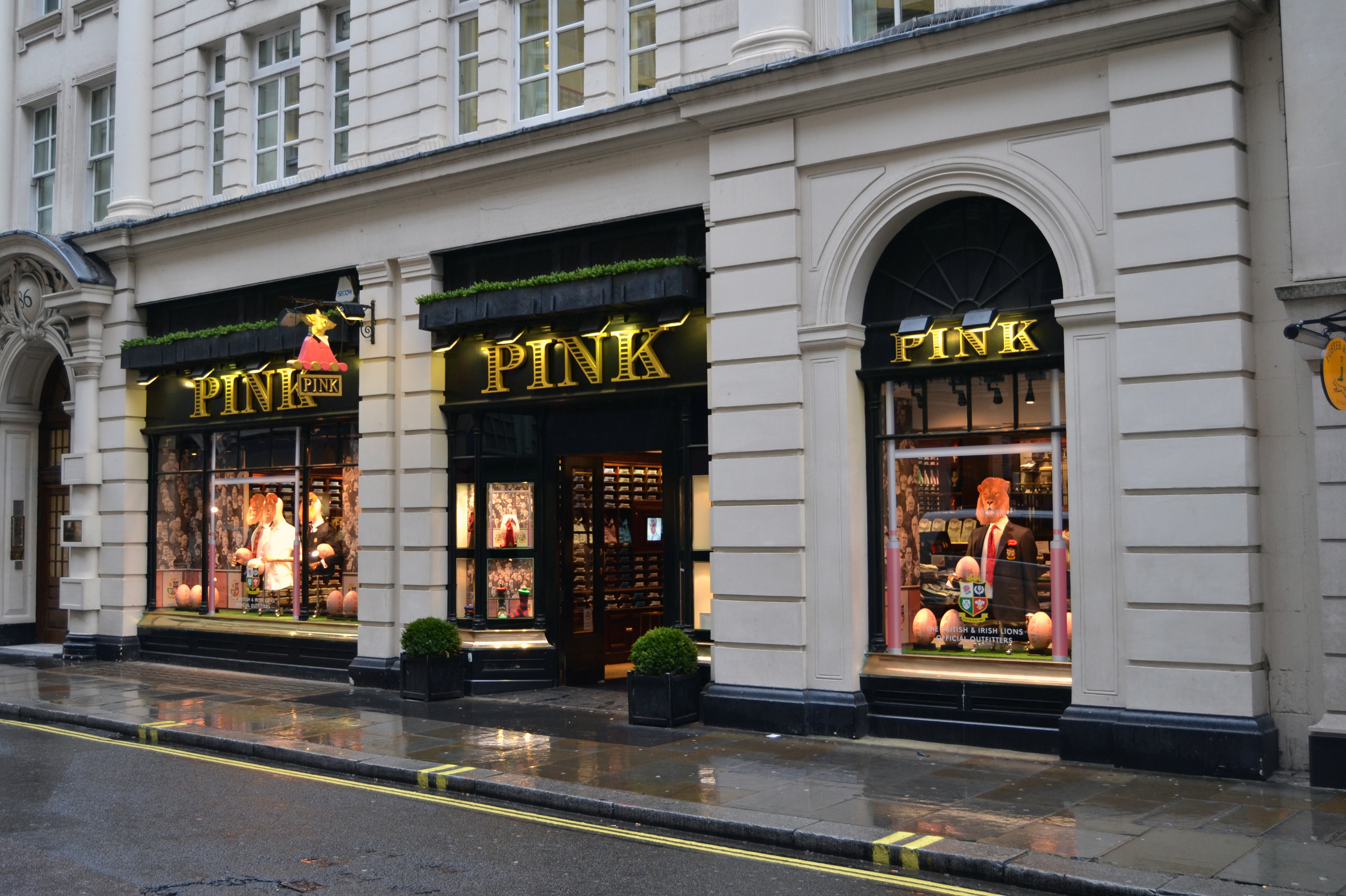 Thomas Pink Store, Jermyn Street, London